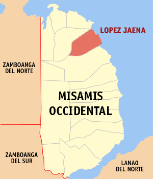 Map of the Misamis Occidental showing the location of Lopez Jaena